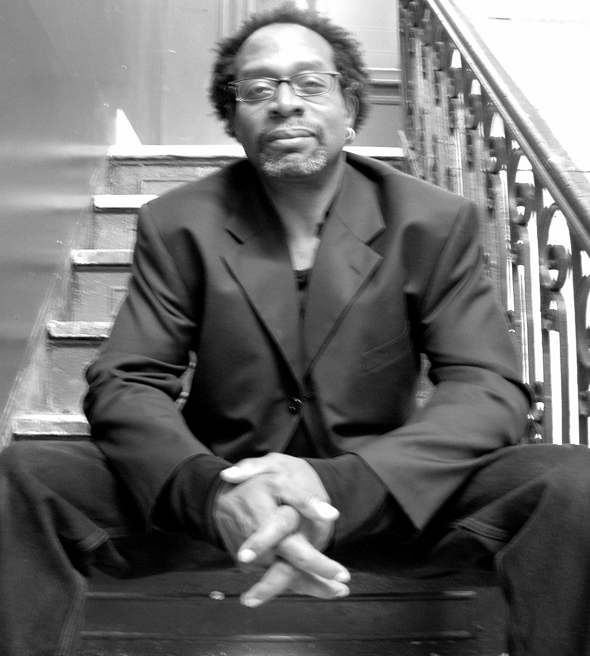 Photo: Monique Delatour taken Dec. 18, 2005 in Harlem, NY